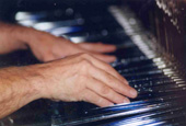 Michel Deneuve'hands on the Cristal keyboard